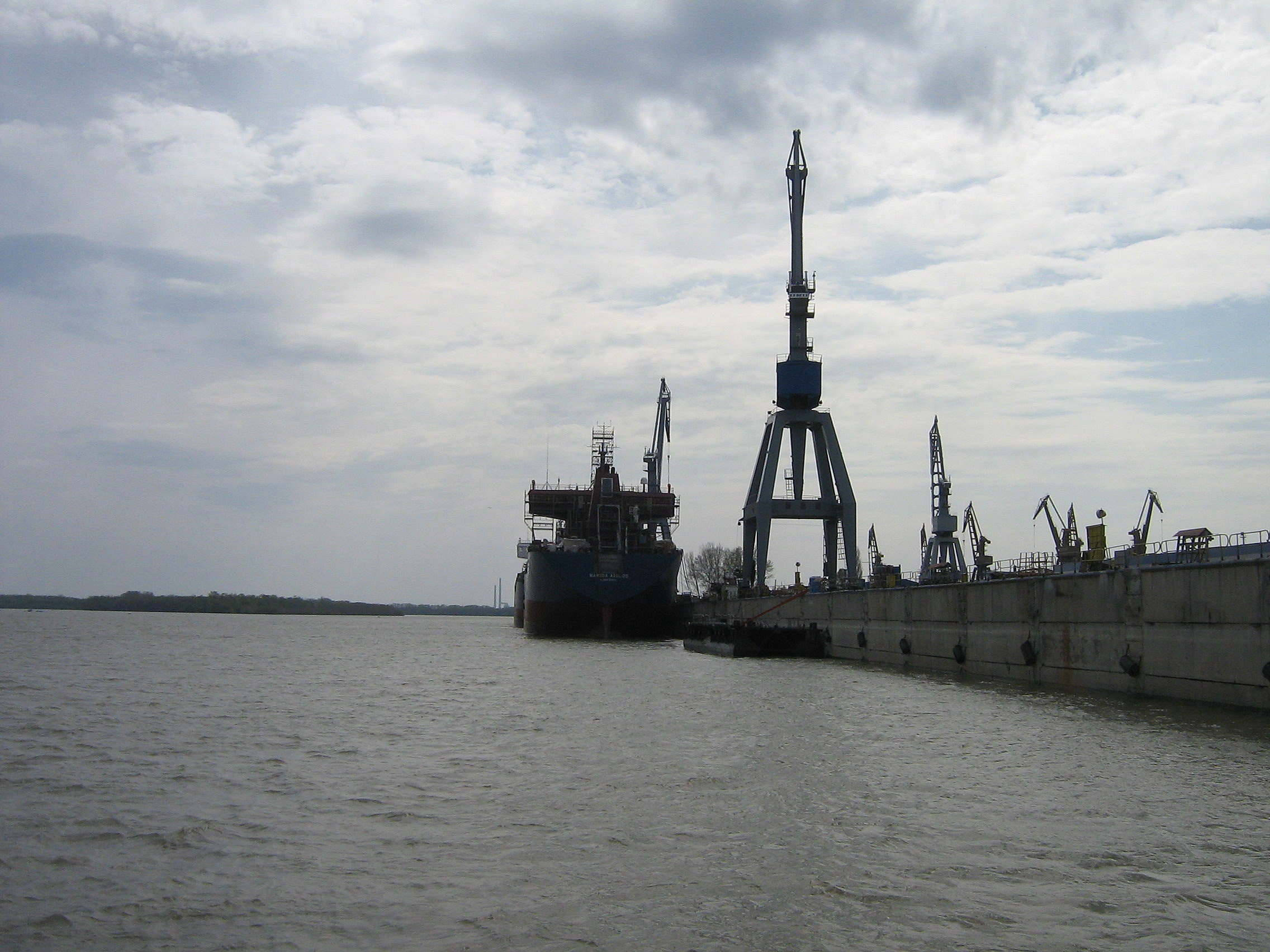 The following is the author's description of the photograph quoted directly from the photograph's Flickr page."Or is it the shipbuiding yard? I'm not sure. "